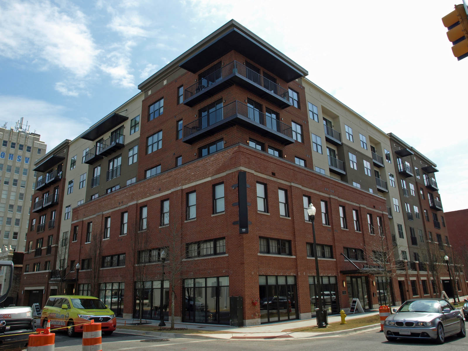 Belk-Hudson Lofts in Huntsville, Alabama. The lower façade is that of Fowler's Department Store, which is listed on the National Register of Historic Places.